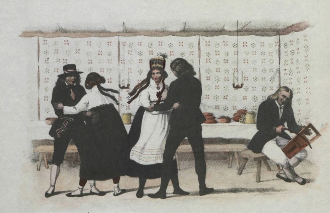 painting by Ernst Hermann Schlichting